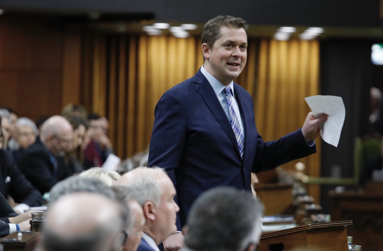 Yesterday in QP we found out that instead of letting Jody Wilson-Raybould speak, Justin Trudeau has hired another Liberal to investigate his Liberals. His government is in chaos and trying everything to cover-up the corruption scandal.